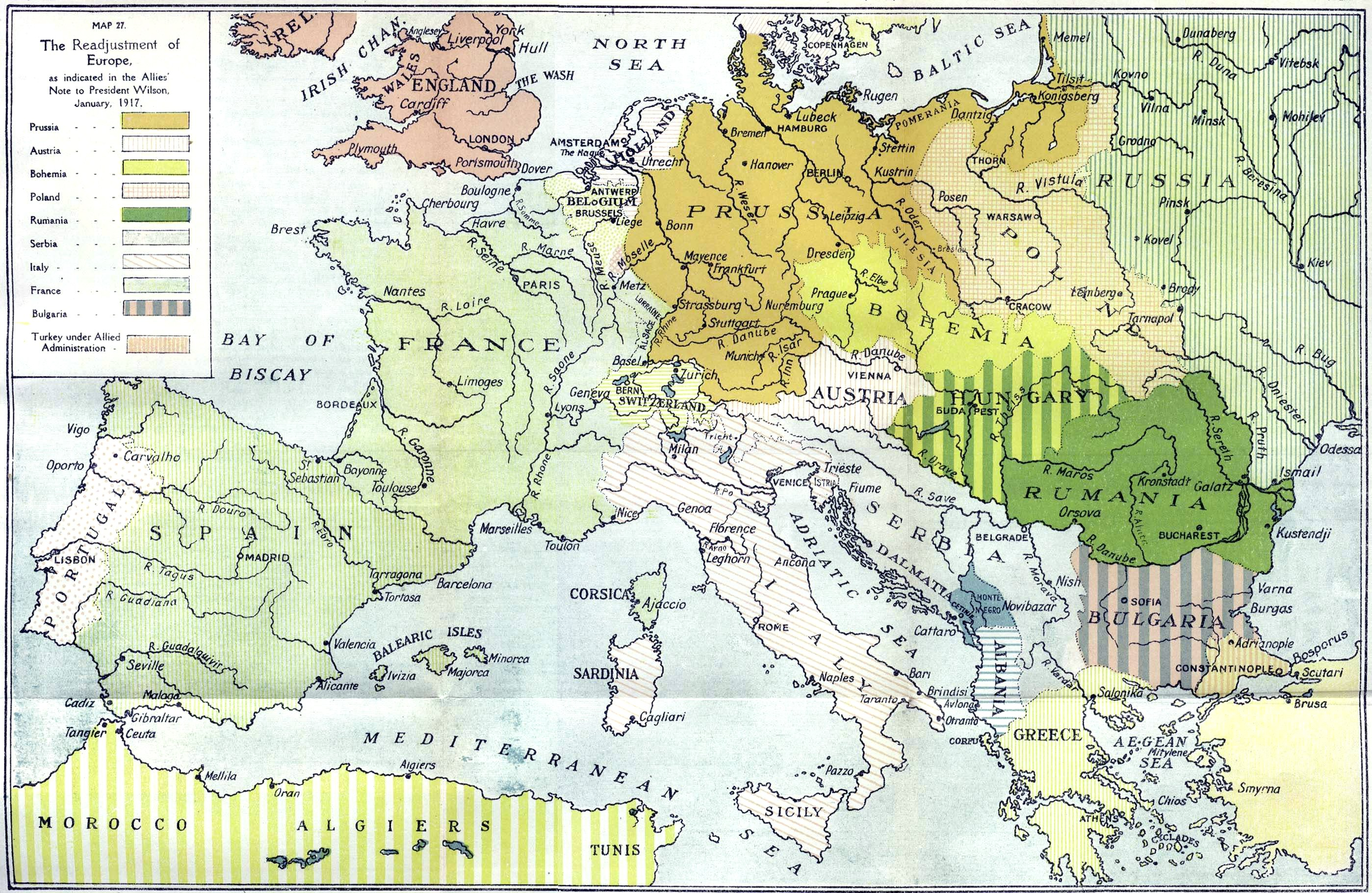 The Readjustment of Europe as indicated in the Allies' Note to President Wilson, January 1917